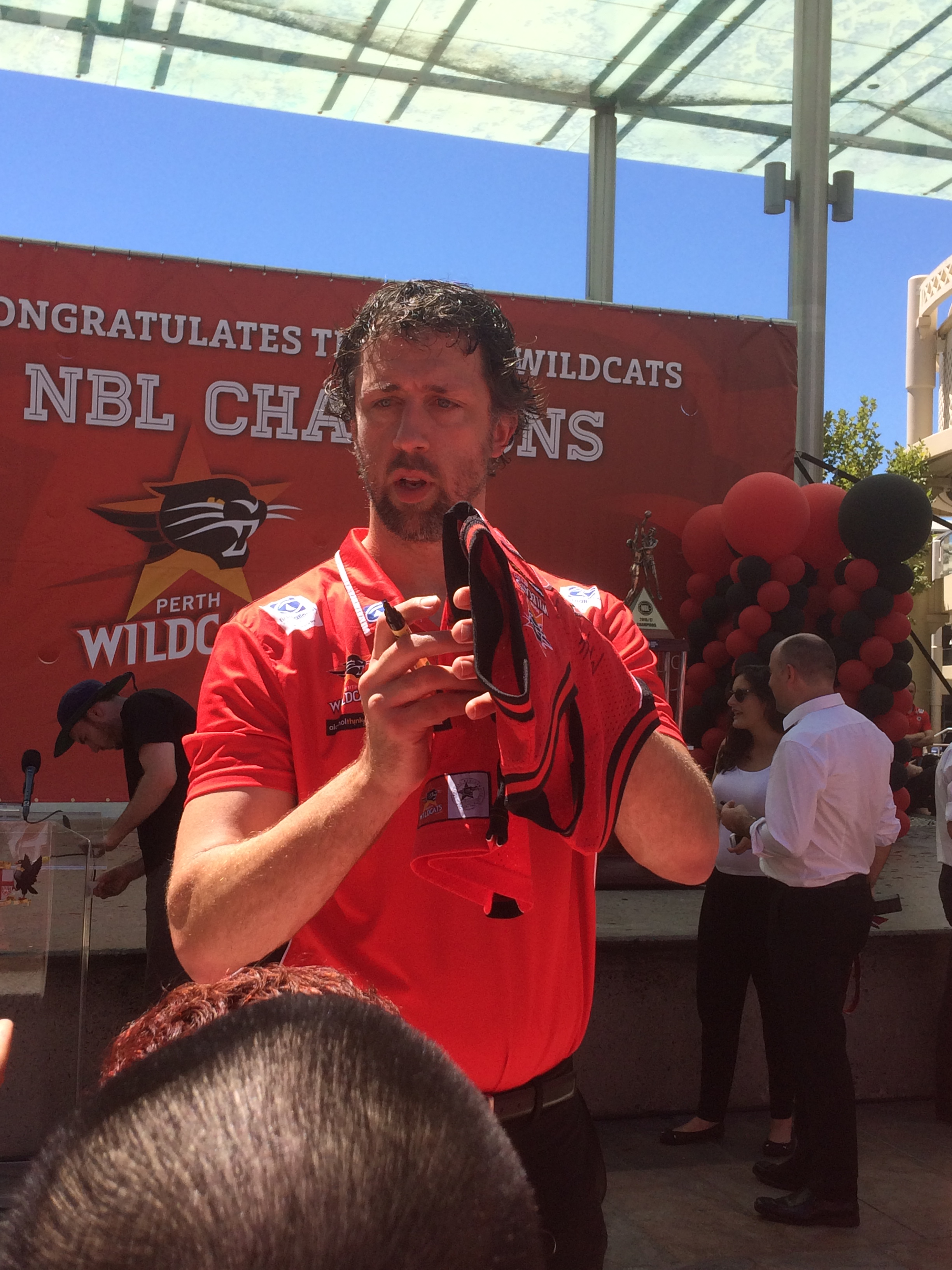 Matthew Nielson (assistant coach) at the Perth Wildcats' 2017 championship celebration